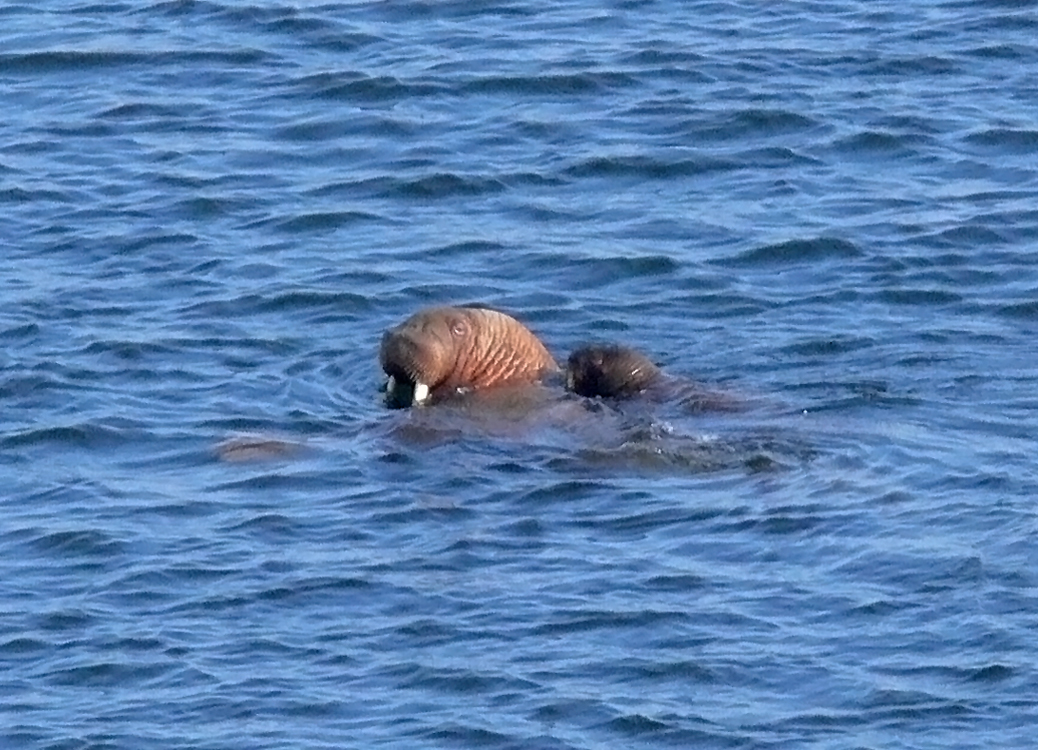 Walrus giving pup a ride in the north Bering Sea.